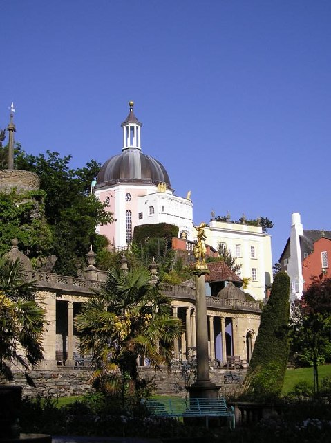 Portmeirion. The Pantheon and Bristol Colonnade seen from the Piazza